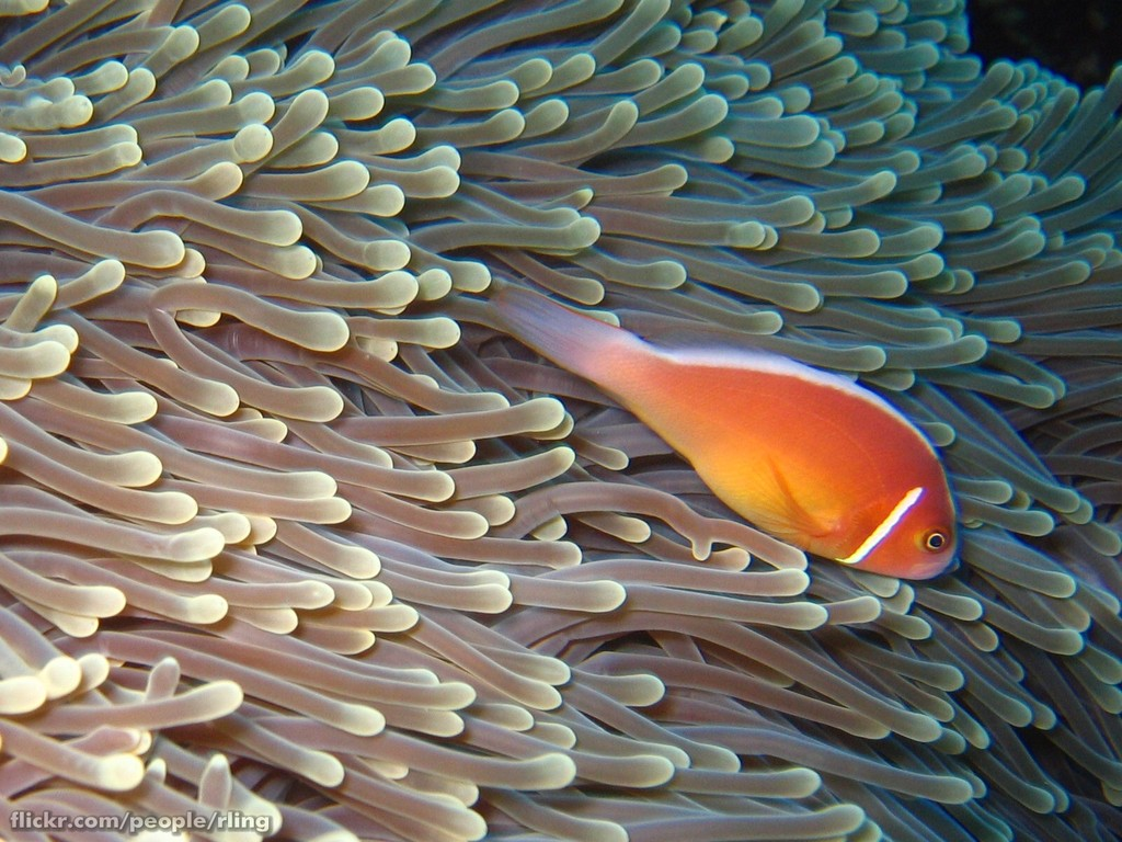 A Pink Anemonefish (Amphiprion perideraion)(Amphiprion perideraion on FishBase) and anemone. Raging Horn, Osprey Reef, Coral Sea